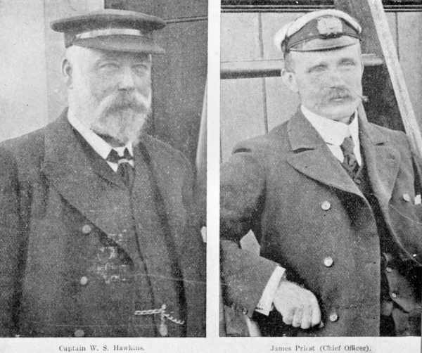 Black and white photograph of Captain W. Hawkins and Chief Officer James Priest, taken prior to 1905.